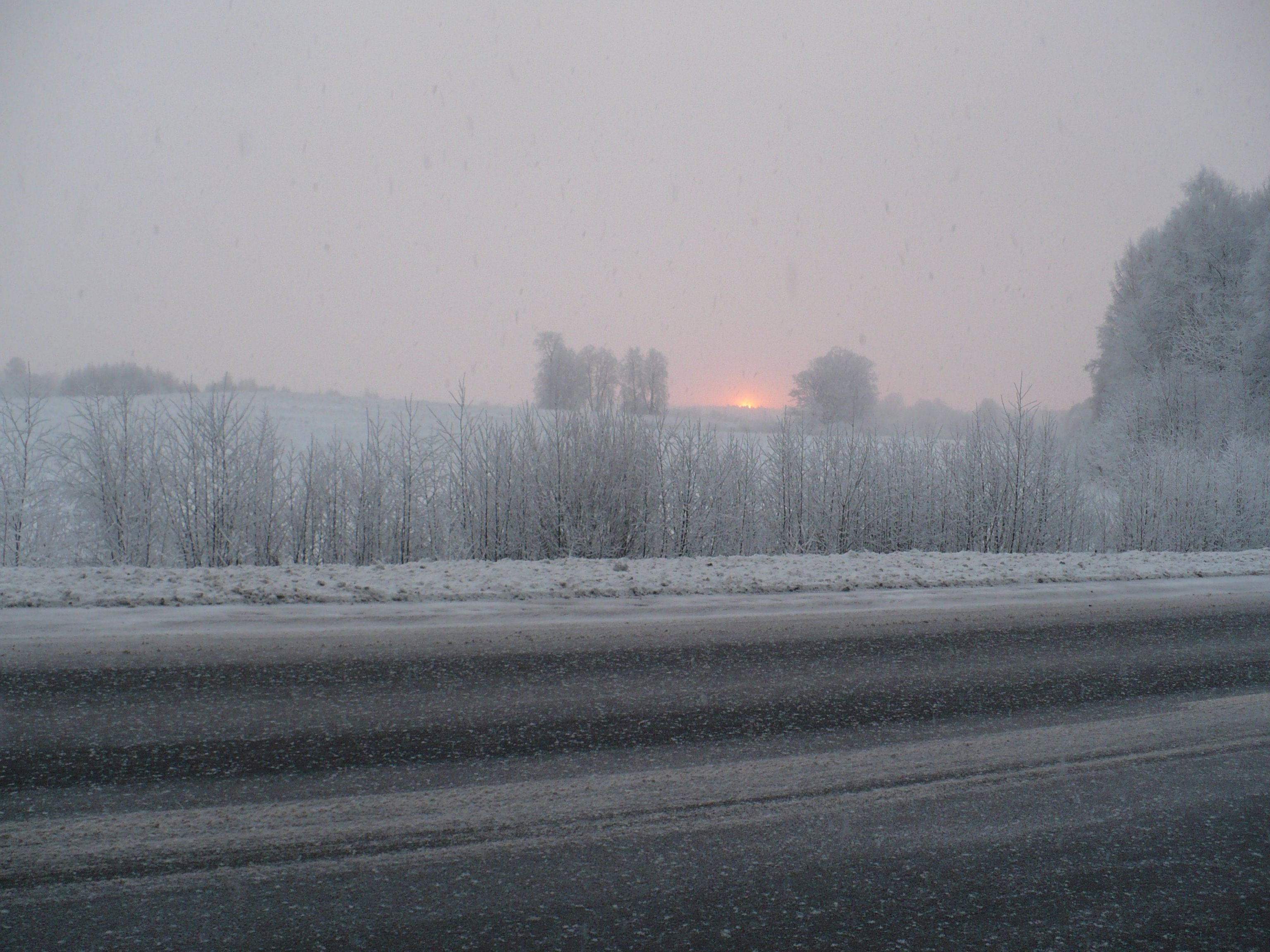 Sunrise on Rīga-Bauska highway. A litle snow. January, 2009